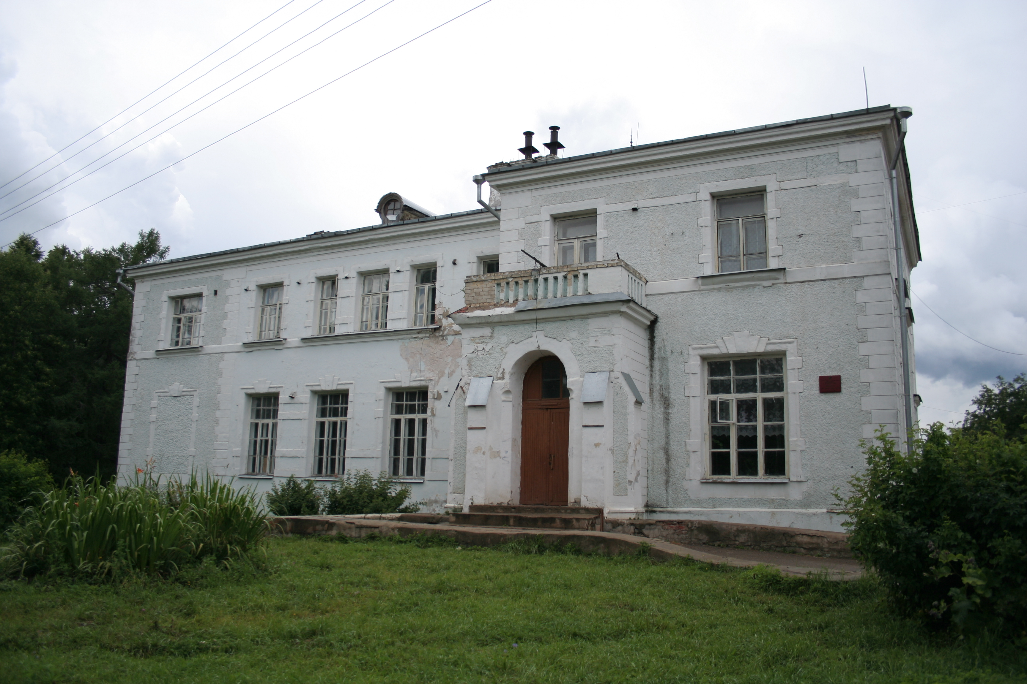 The „Palace of children's creativeness“ in Gavrilov-Yam, Yaroslavl Oblast, Russia